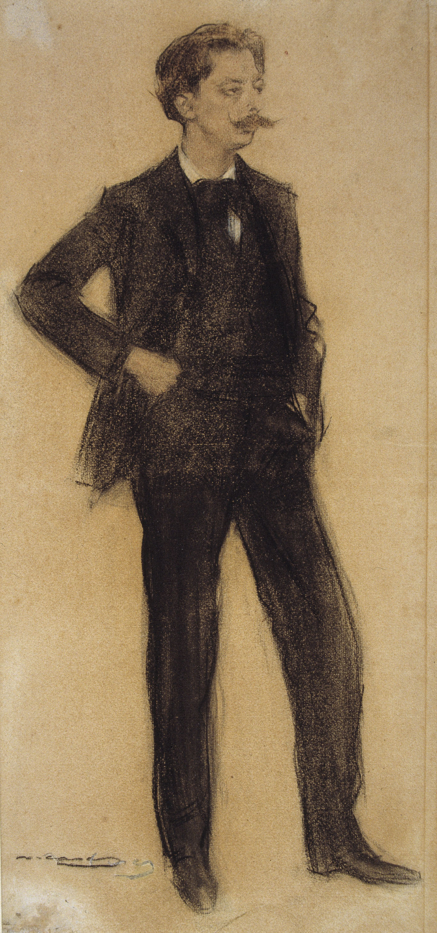 Portrait by Ramon Casas conserved at MNAC in Barcelona. Imagen 109